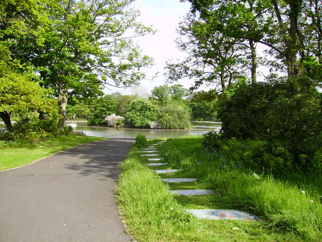 Leazes Park boating lake Boating lake island, home to ducks, swans, geese and other birds. Photo also shows public art that is located all around the park (Flag stones to right of footpath).